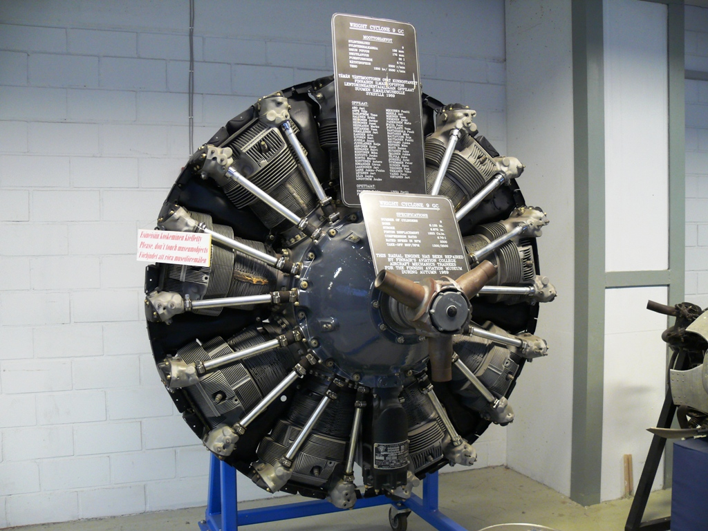 Wright Cyclone 9 radial motor in the Aviation Museum of Finland